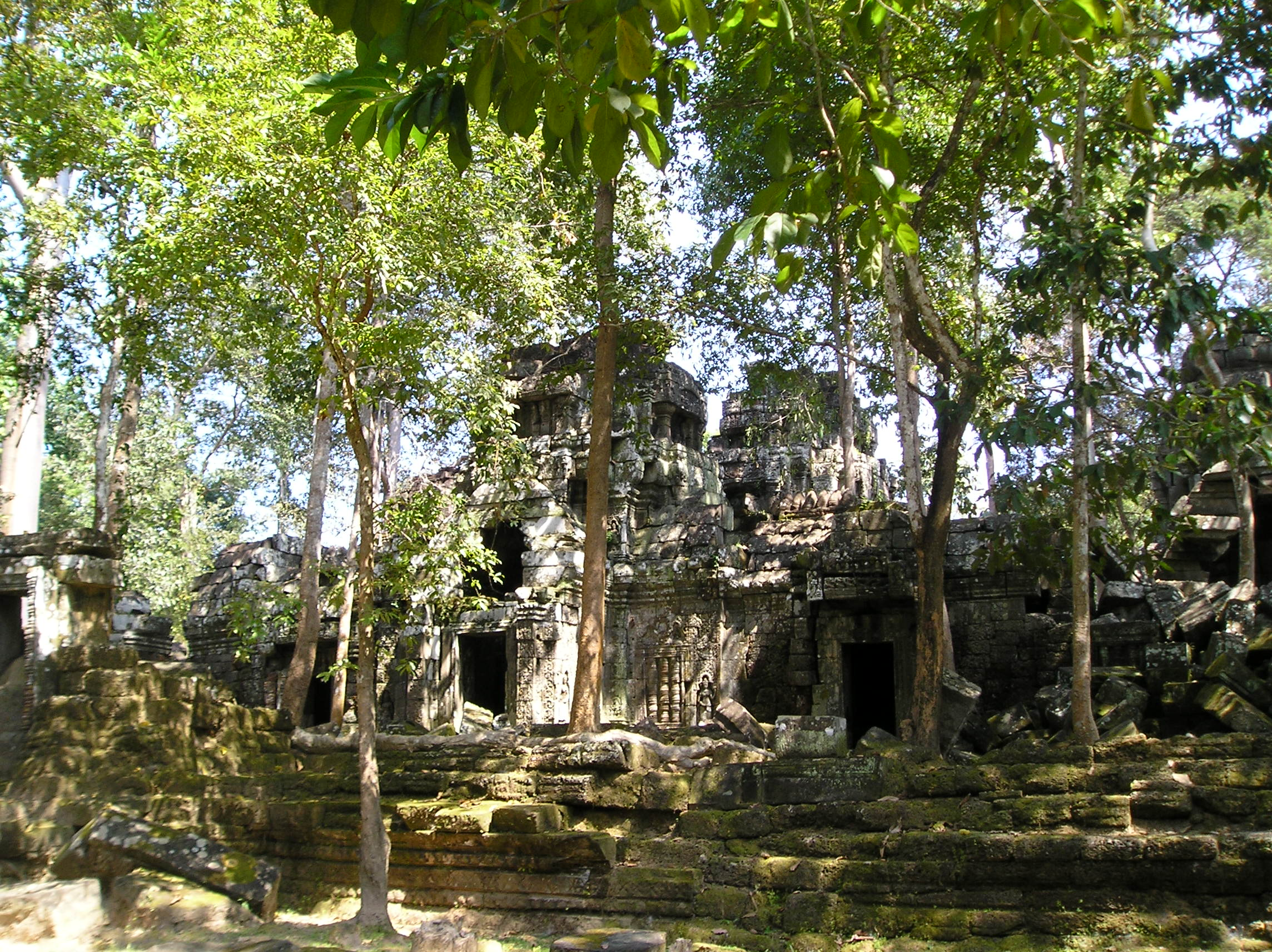 Photo by Writer128 The Ta Nei temple in Angkor, Cambodia